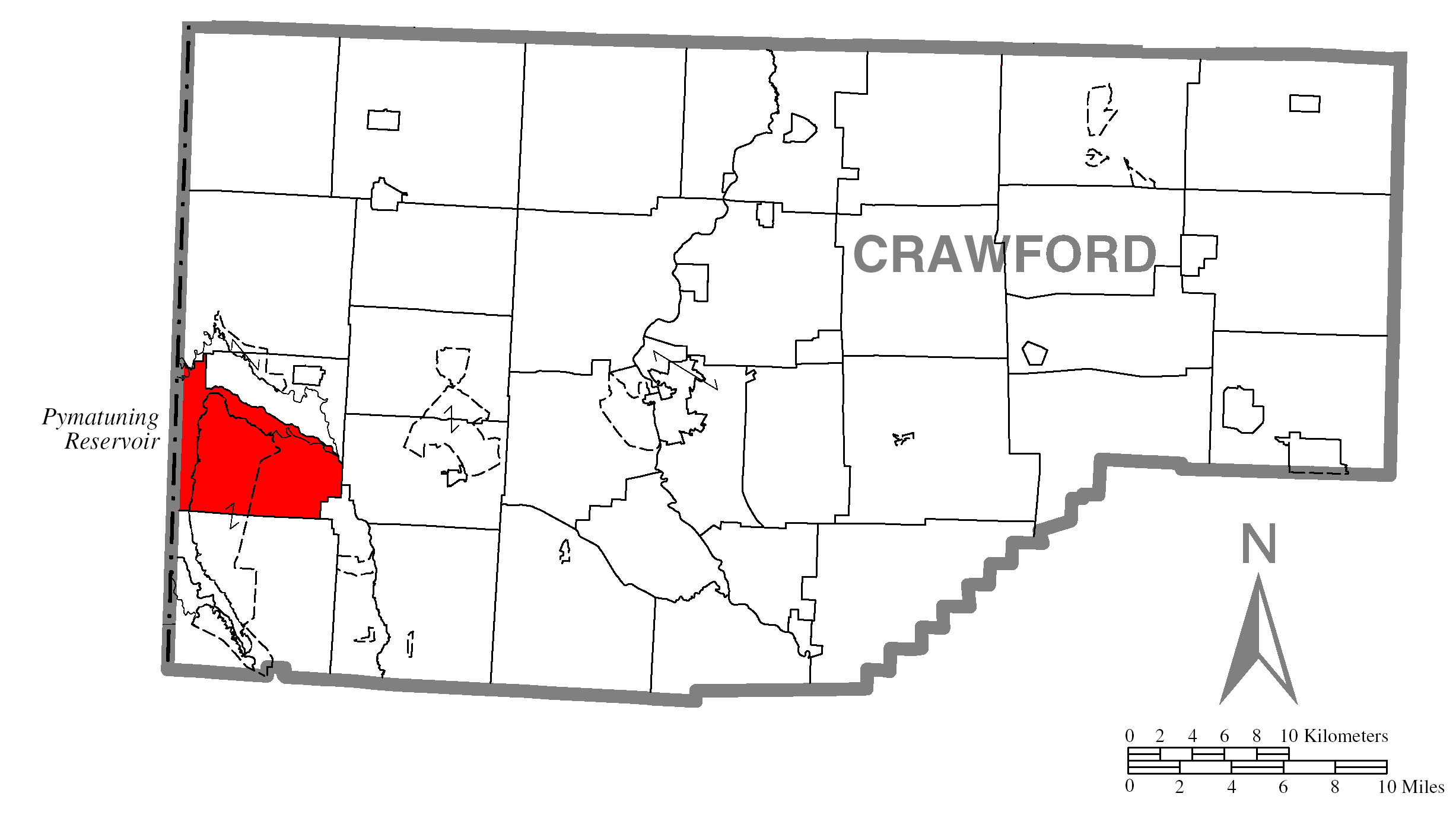 Map of Crawford County higlighting North Shenango, Township.